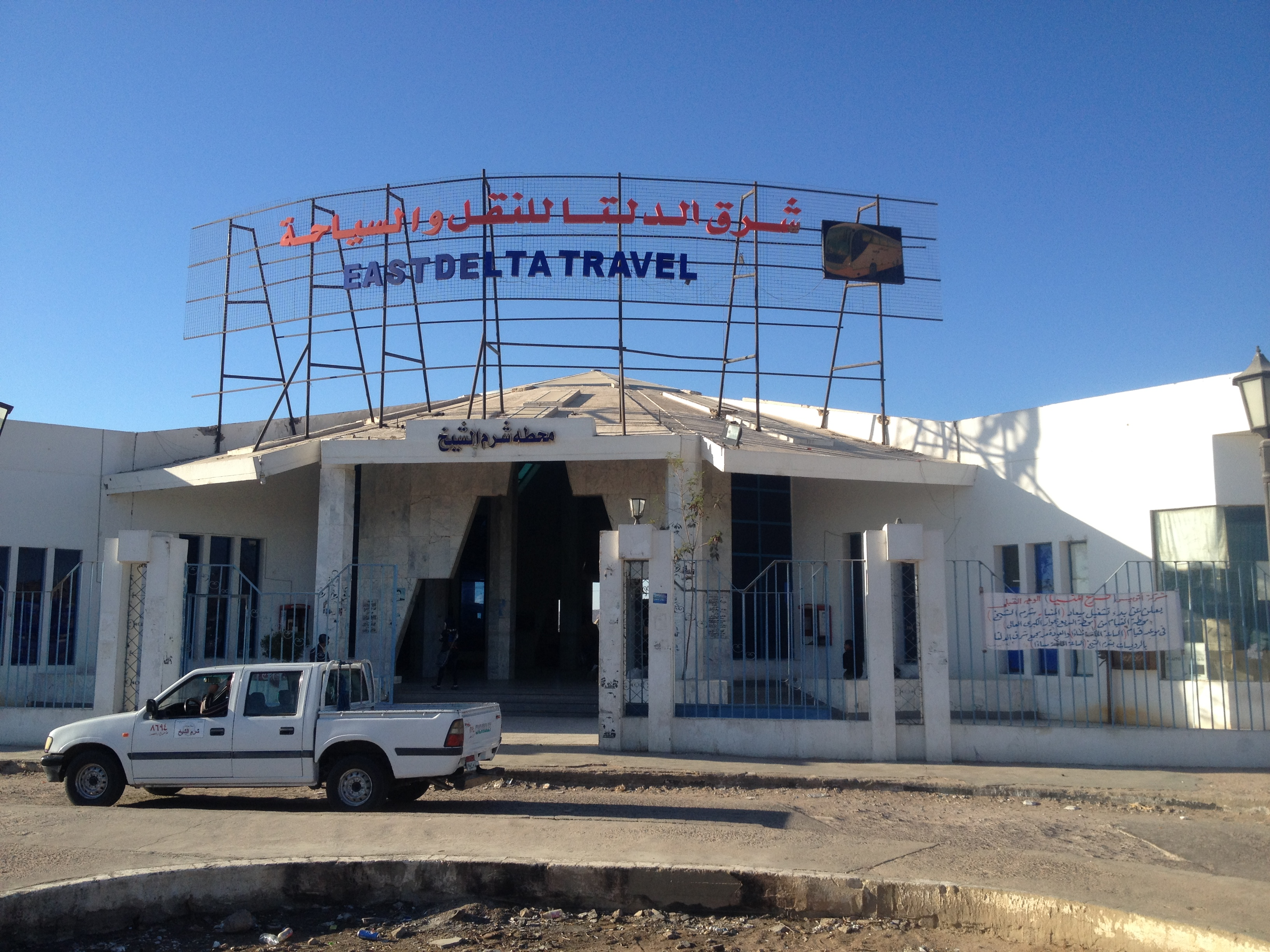 Main entrance of Sharm el-Sheikh bus station